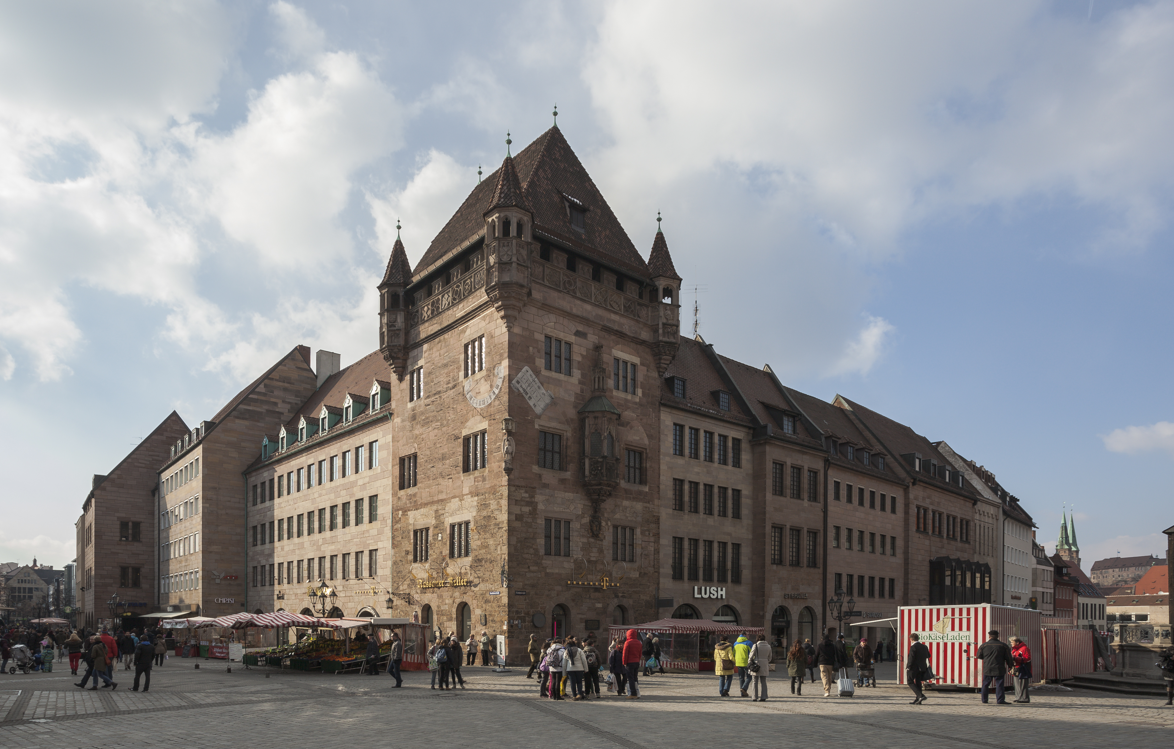 Nassauer Haus, Nuremberg, Germany